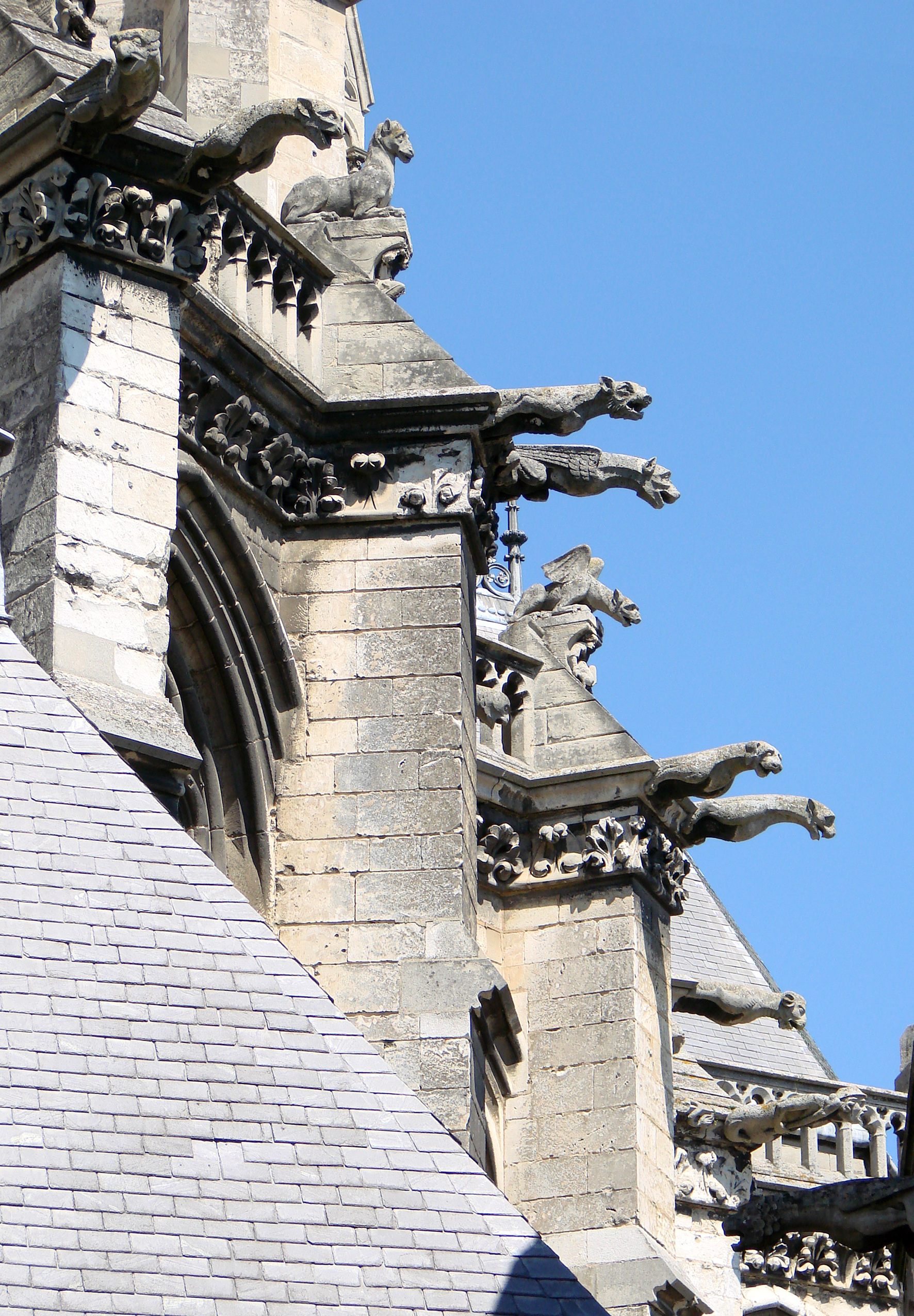 Gargoyles and Apse sculptures on Notre-Dame Cathedral in Amiens.